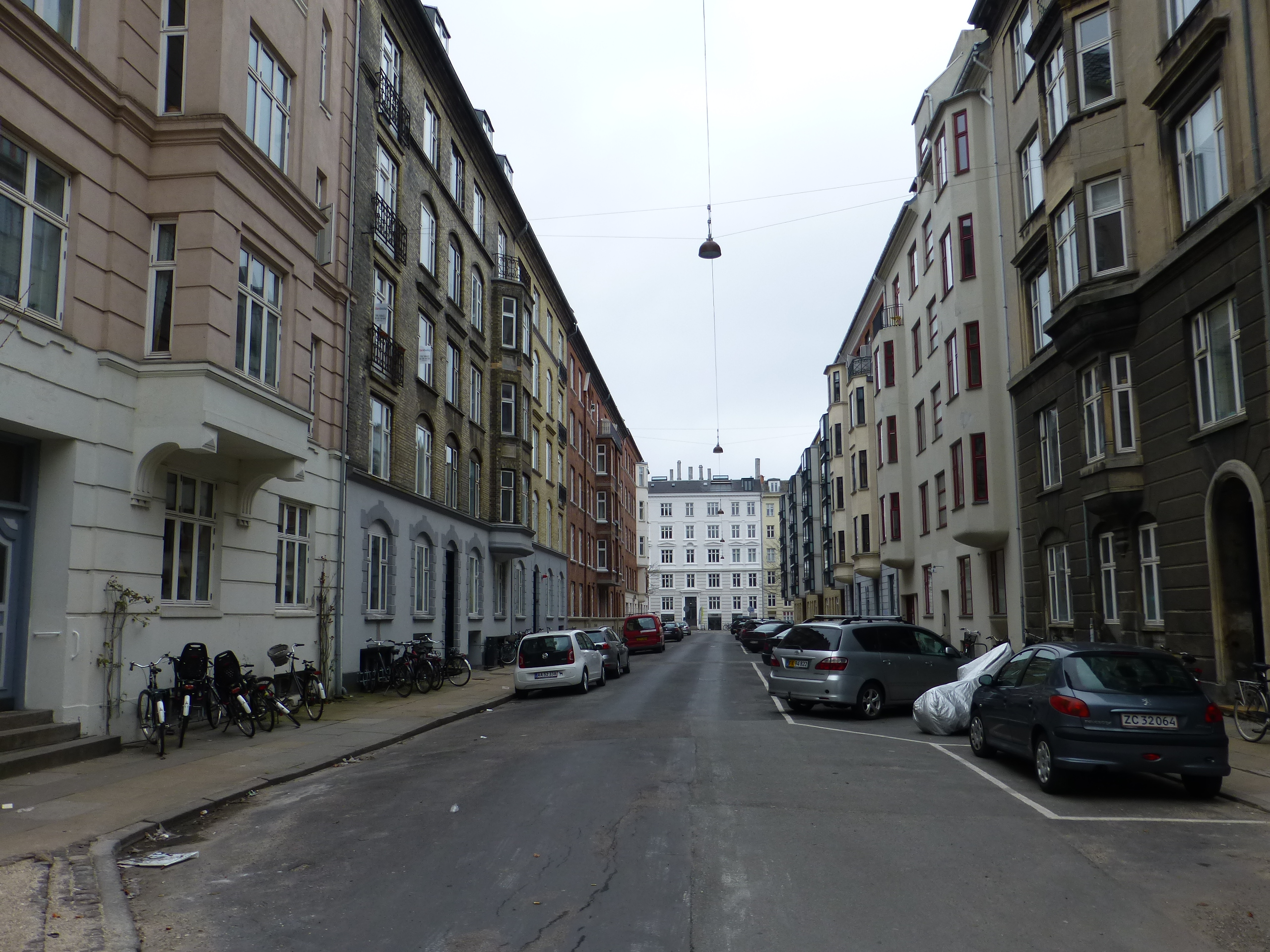 The street Kirsteinsgade in Østerbro in Copenhagen.